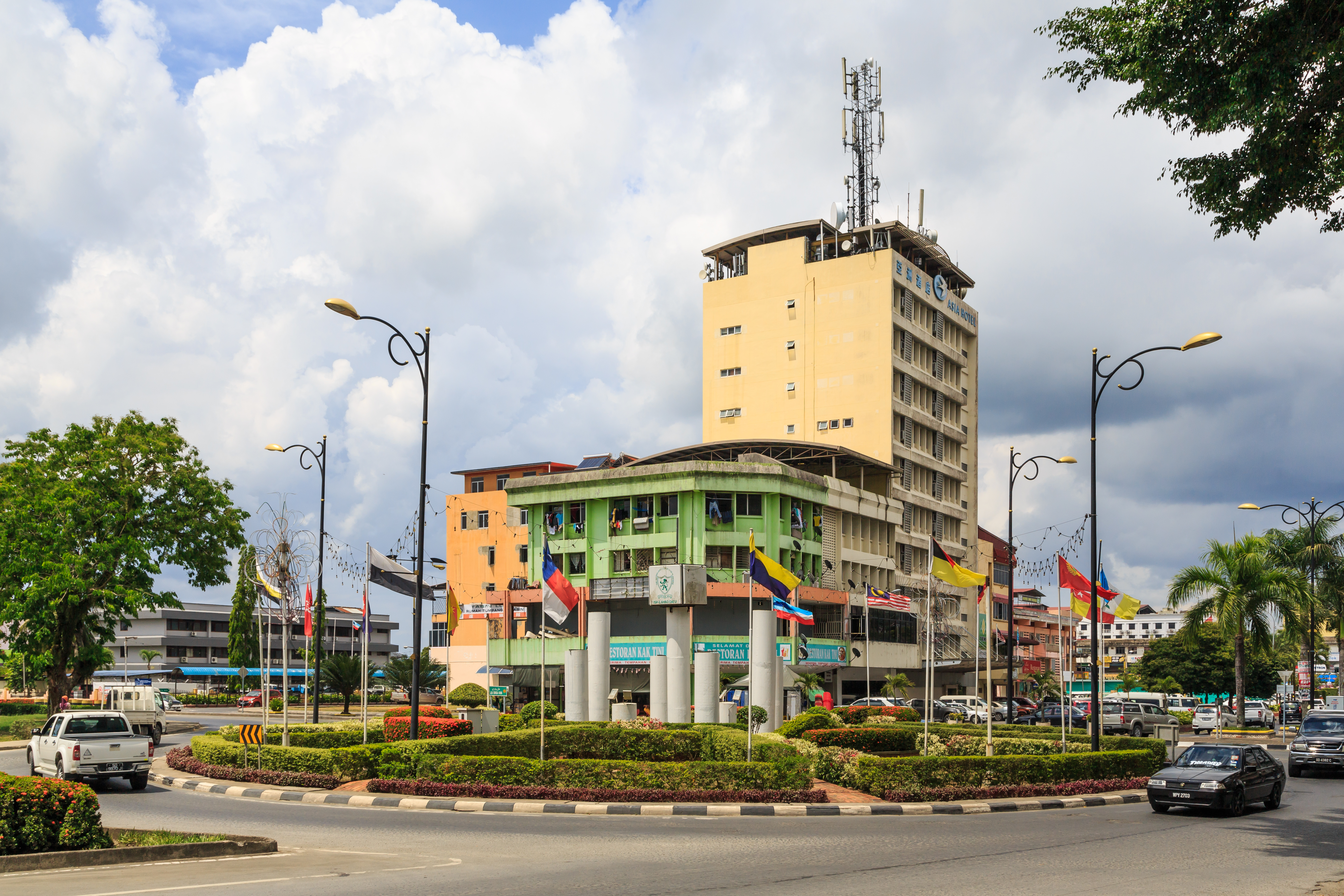 Lahad Datu, Sabah: The Roundabout of The Incorporated Society of Planters (ISP Lahad Datu) in front of ASIA HOTEL and Tabin Lodge